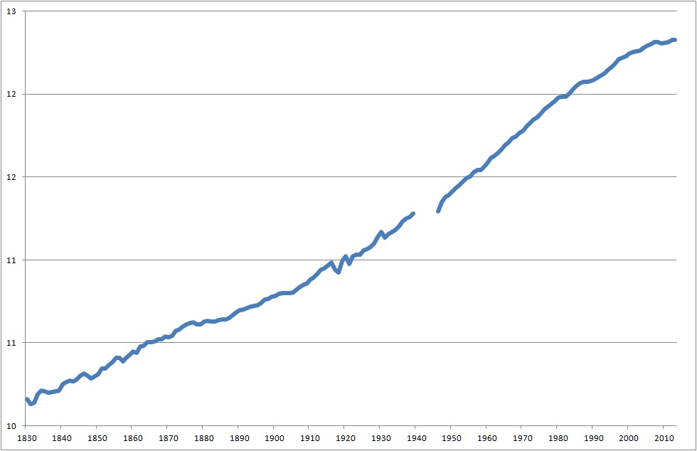 Gross domestic product (GDP) for Norway 1830-2013 in log (10) of fixed prices (2005-NOK). Datasource: Grytten, O.H. (2004). "The gross domestic product for Norway 1830-2003", 241-288, Chapter 6 in Eitrheim, Ø., J.T. Klovland and J.F. Qvigstad (eds.), Historical Monetary Statistics for Norway 1819-2003, Norges Bank Occasional Papers no. 35, Oslo, 2004 Last updated: February 2014